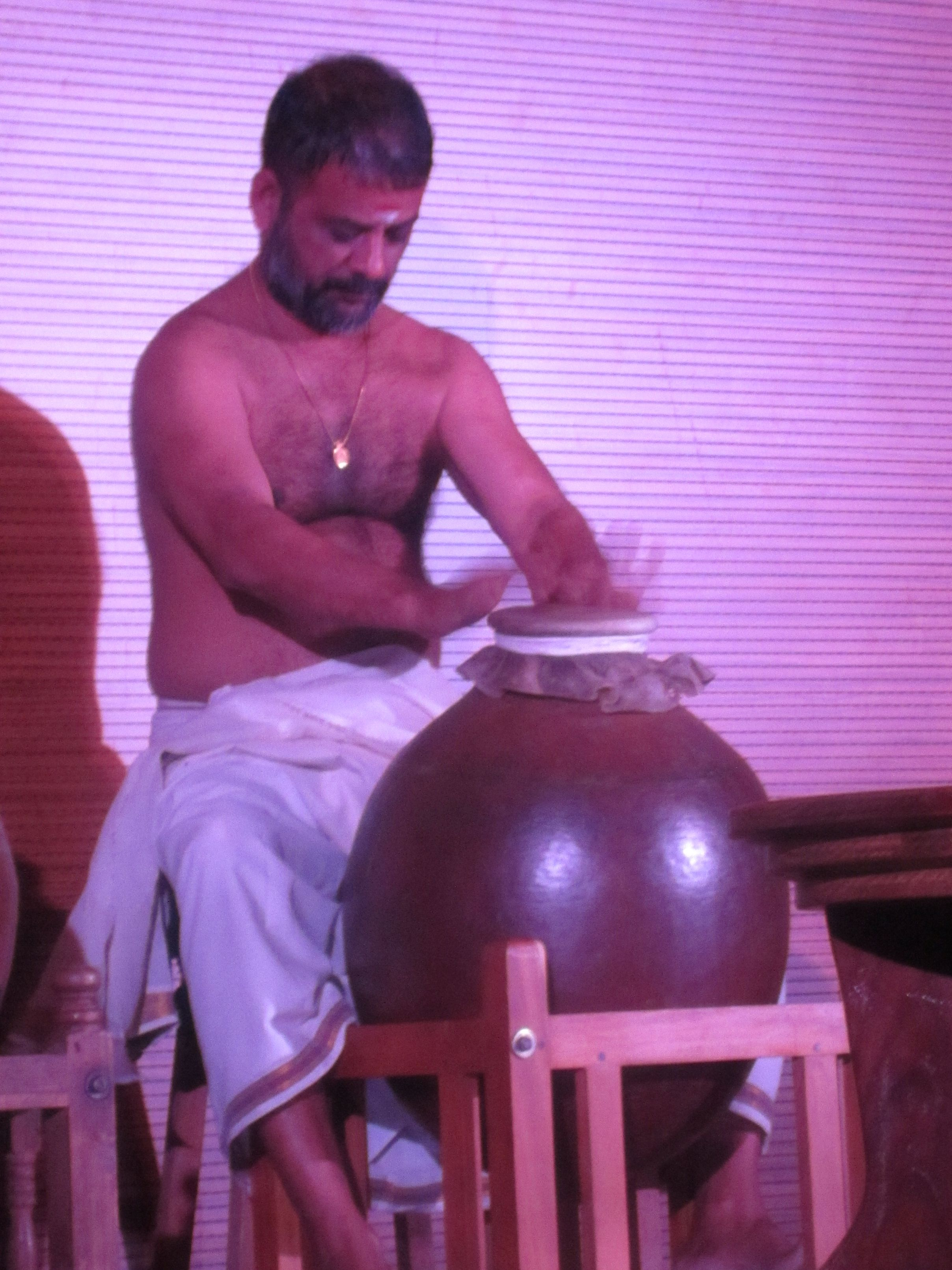 Hariharan VKK on Mizhavu